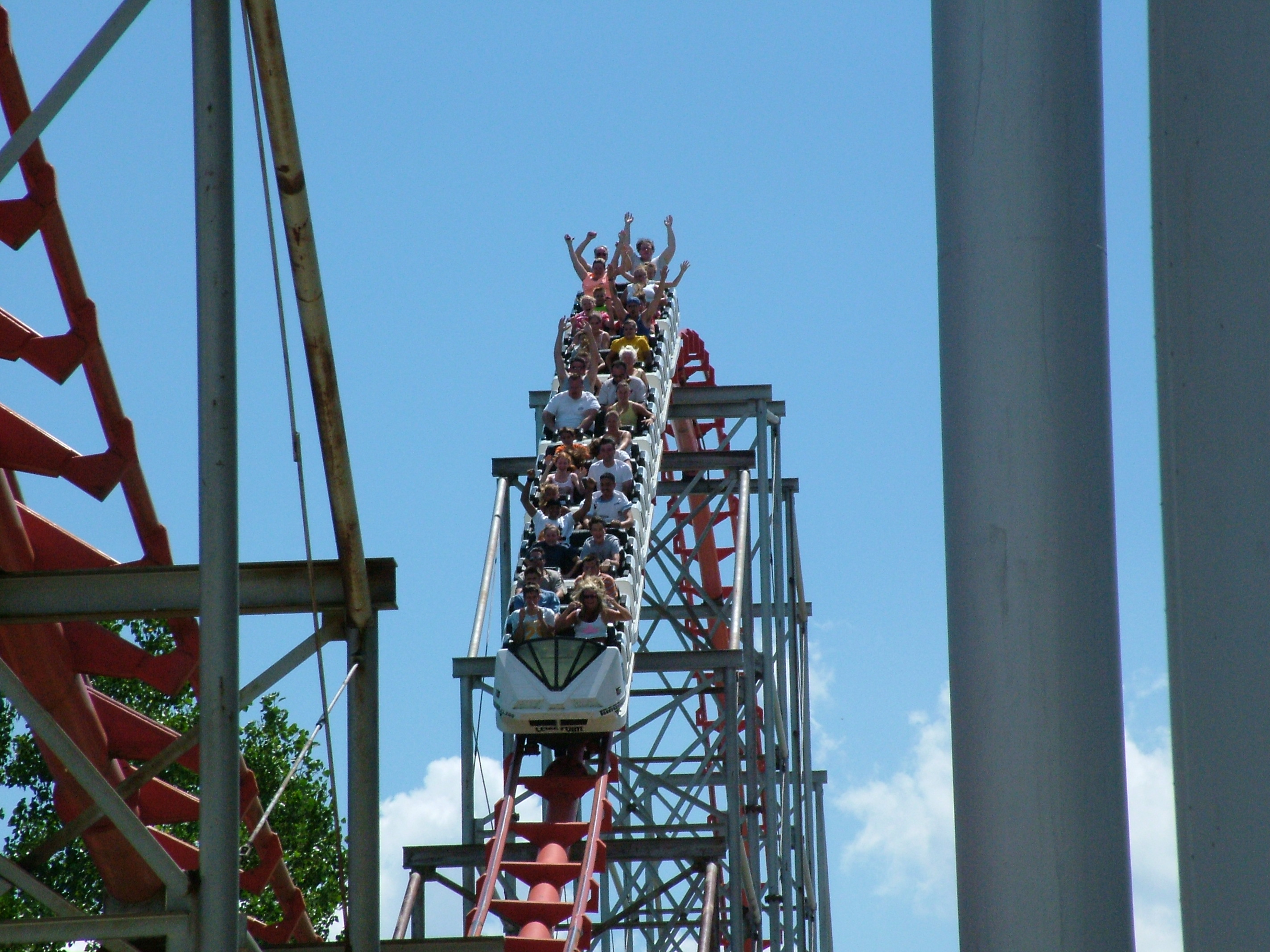 Subject: Magnum XL-200 at Cedar Point in Sandusky, Ohio Author: Nick Nolte Taken: August 8, 2004